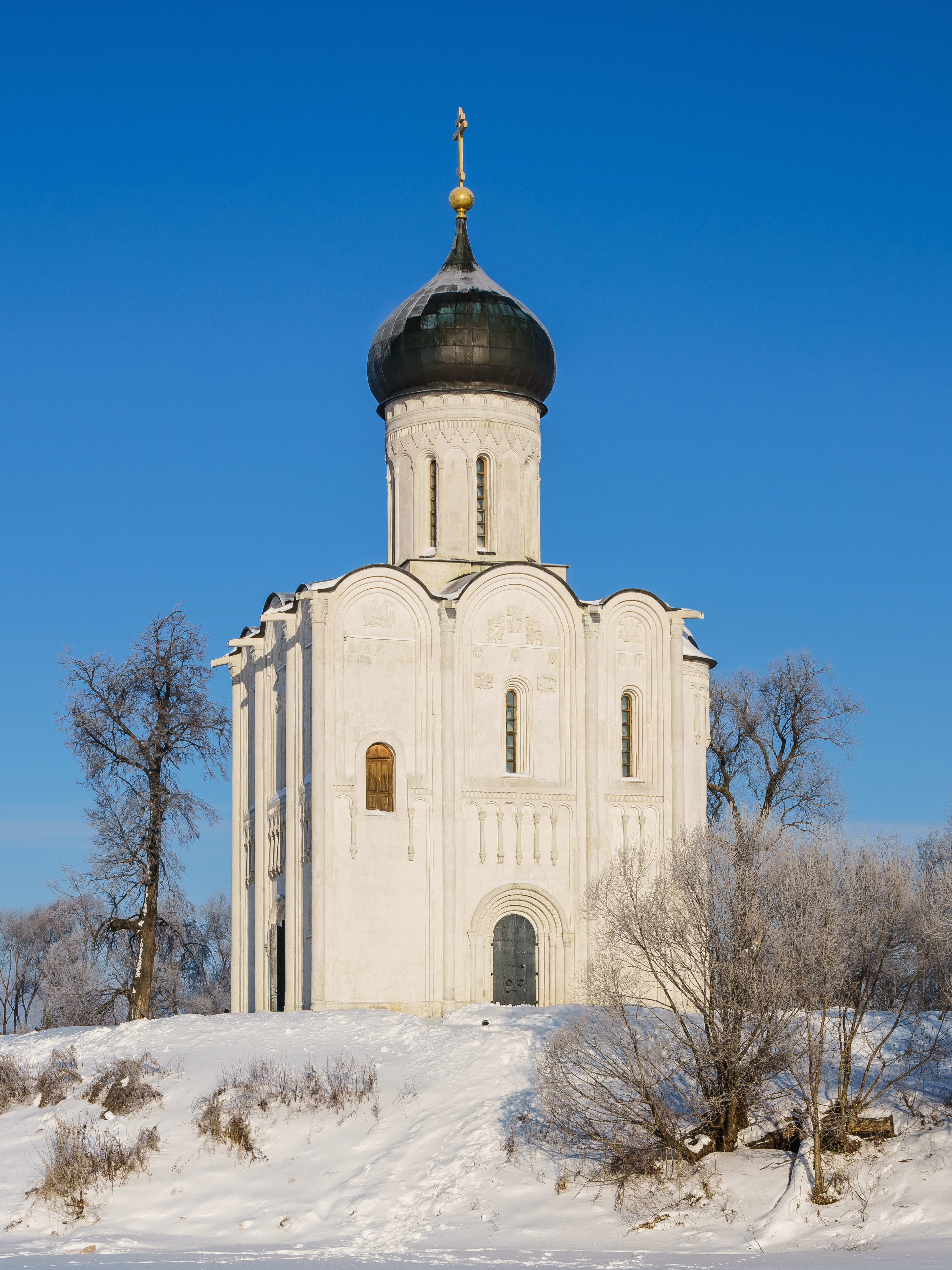 Intercession Church on the Nerl in Bogolyubovo near Vladimir, Russia